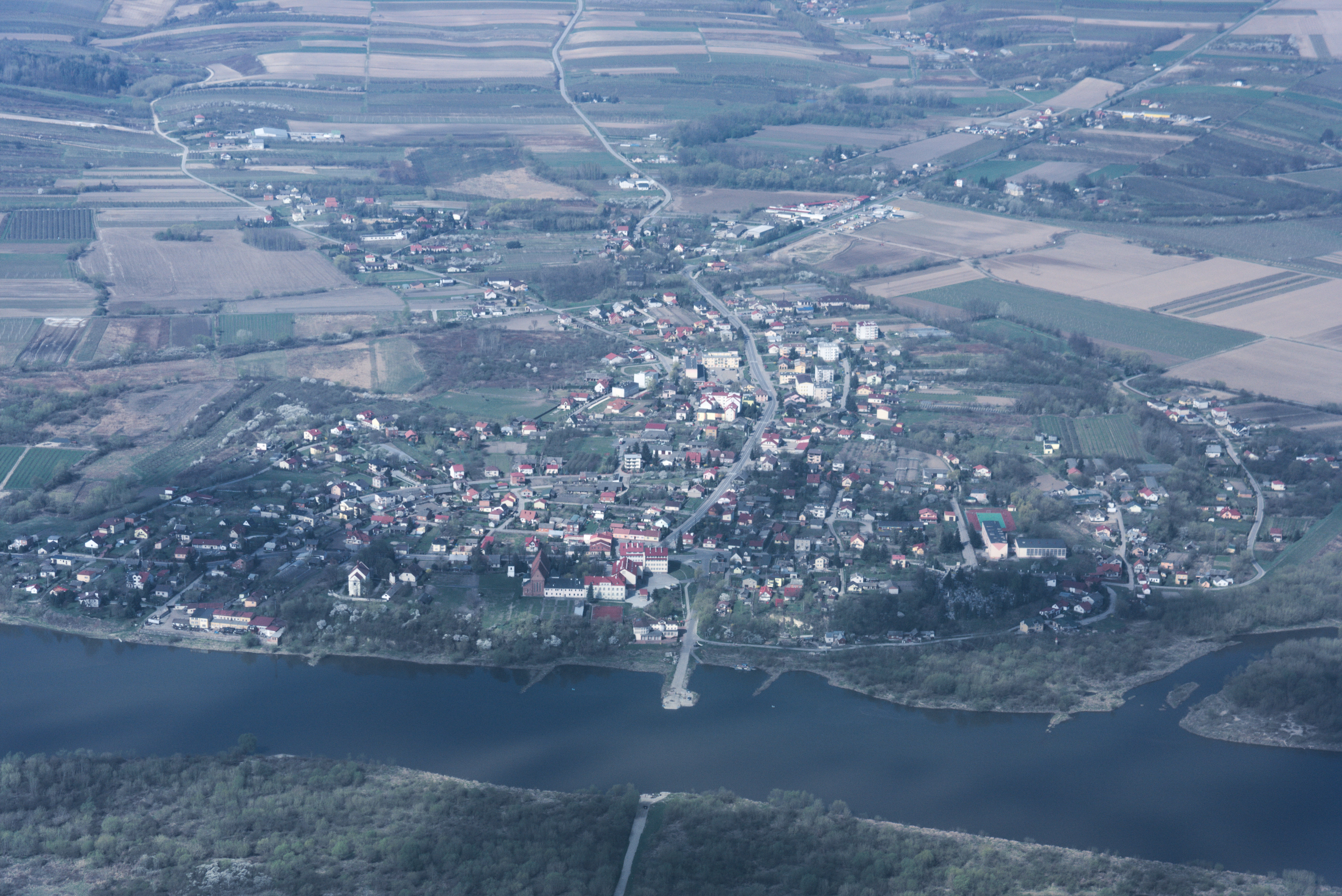 Zawichost - aeral photo